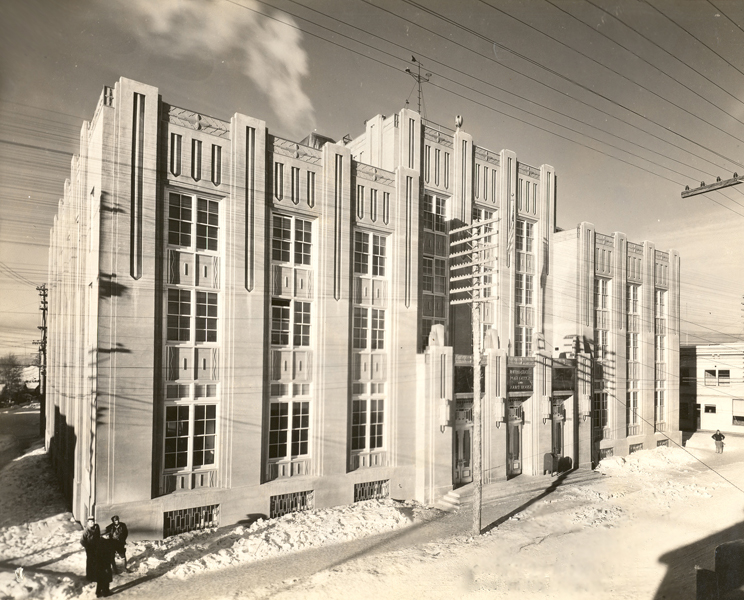 Fairbanks, Alaska U.S. Post Office and Courthouse (n.d., ca. 1933) Completed in 1933. Architect: George Ray The U.S. District Court for the District of Alaska met here from 1958 until 1977. Now privately owned.